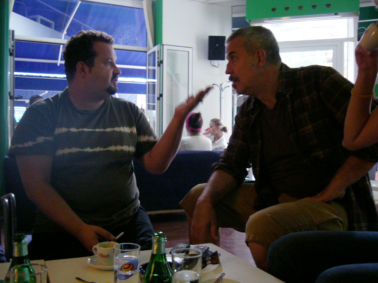 Bosnian television comedy personalities Almir Kurt & Mirza Tanović (in Sept 2005)